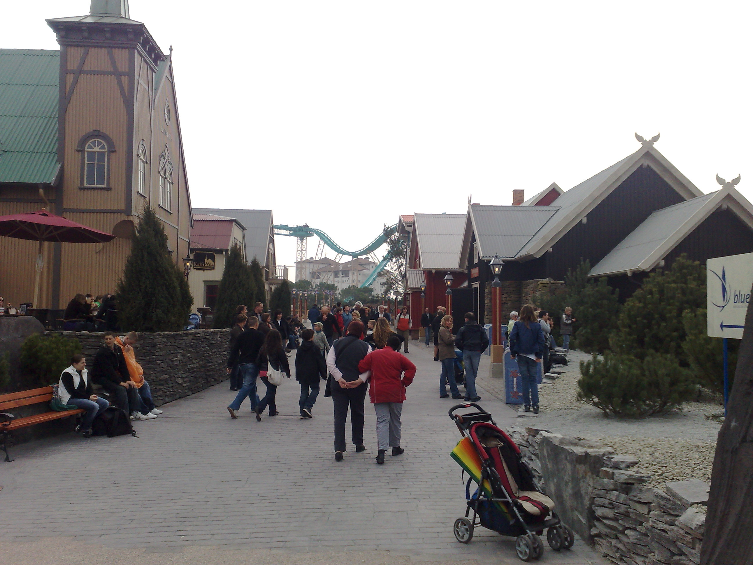 The Iceland area at Europa Park.